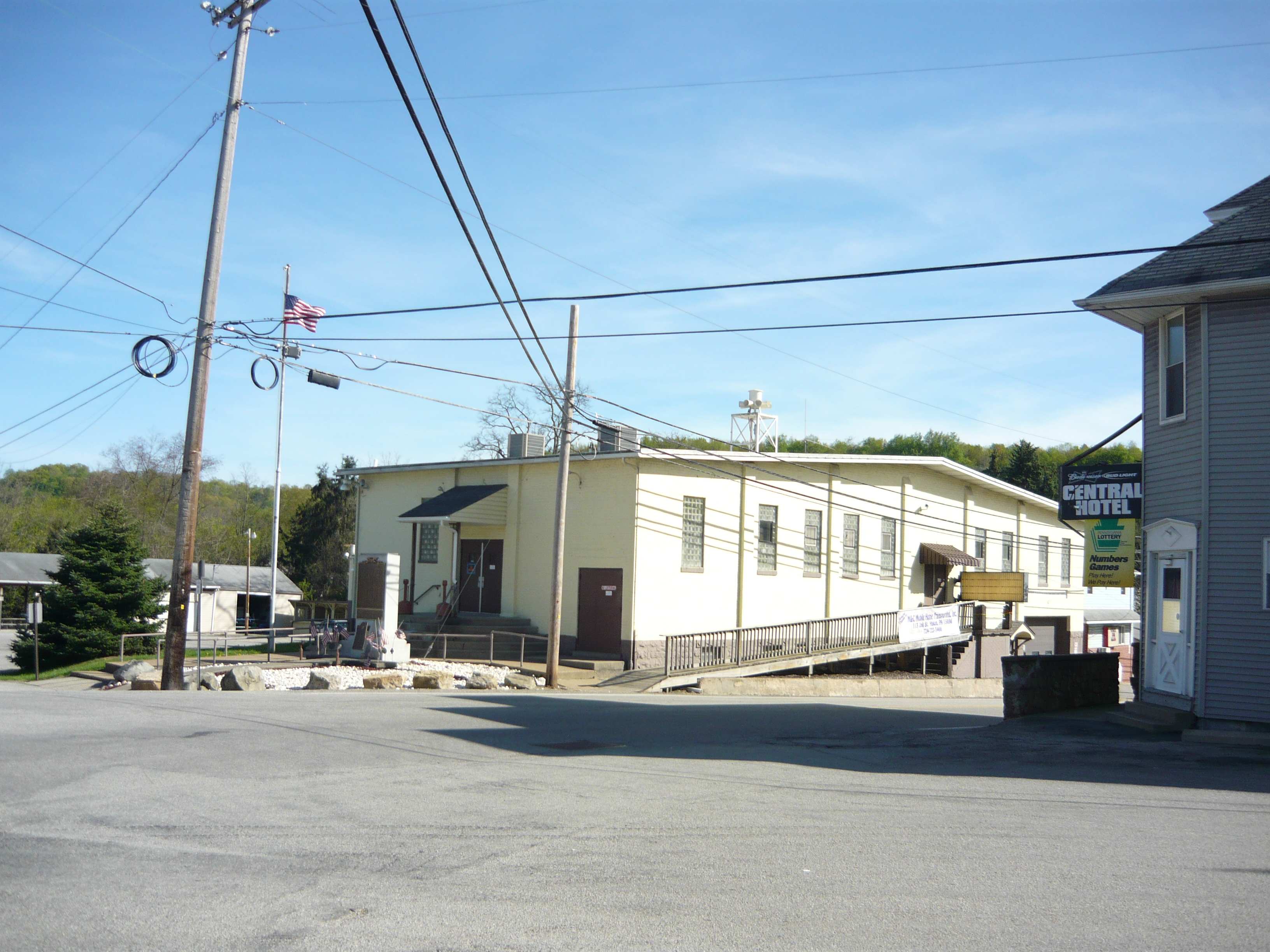 Central Hotel and war memorial in Yukon, South Huntingdon Township, Westmoreland County, Pennsylvania. Shown is the intersection of Keller Avenue, Highway Street, Henry Street, and Station Street.